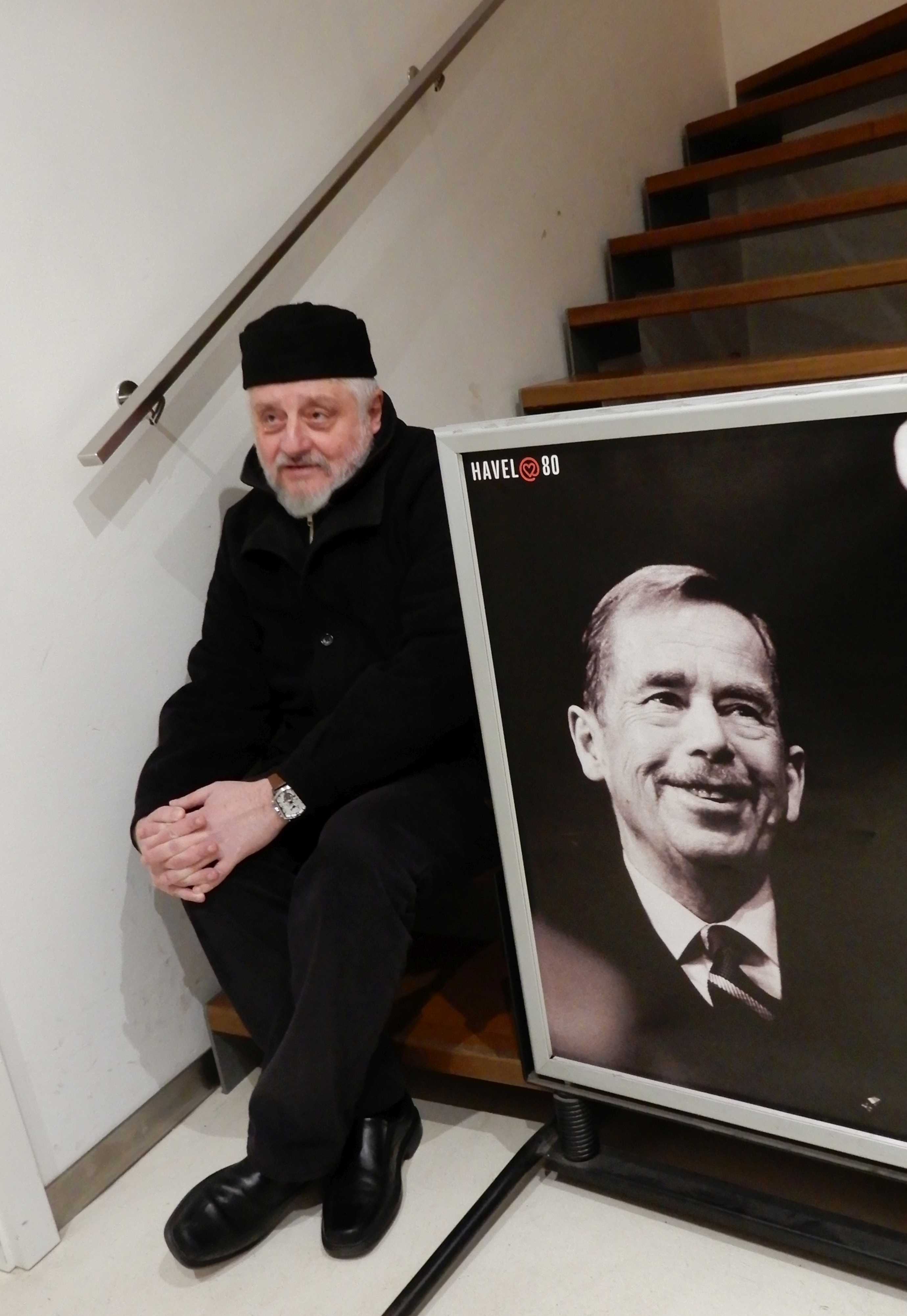 Bors Chersonskij in the Vaclav Havel Library in Prague 28.11.2018